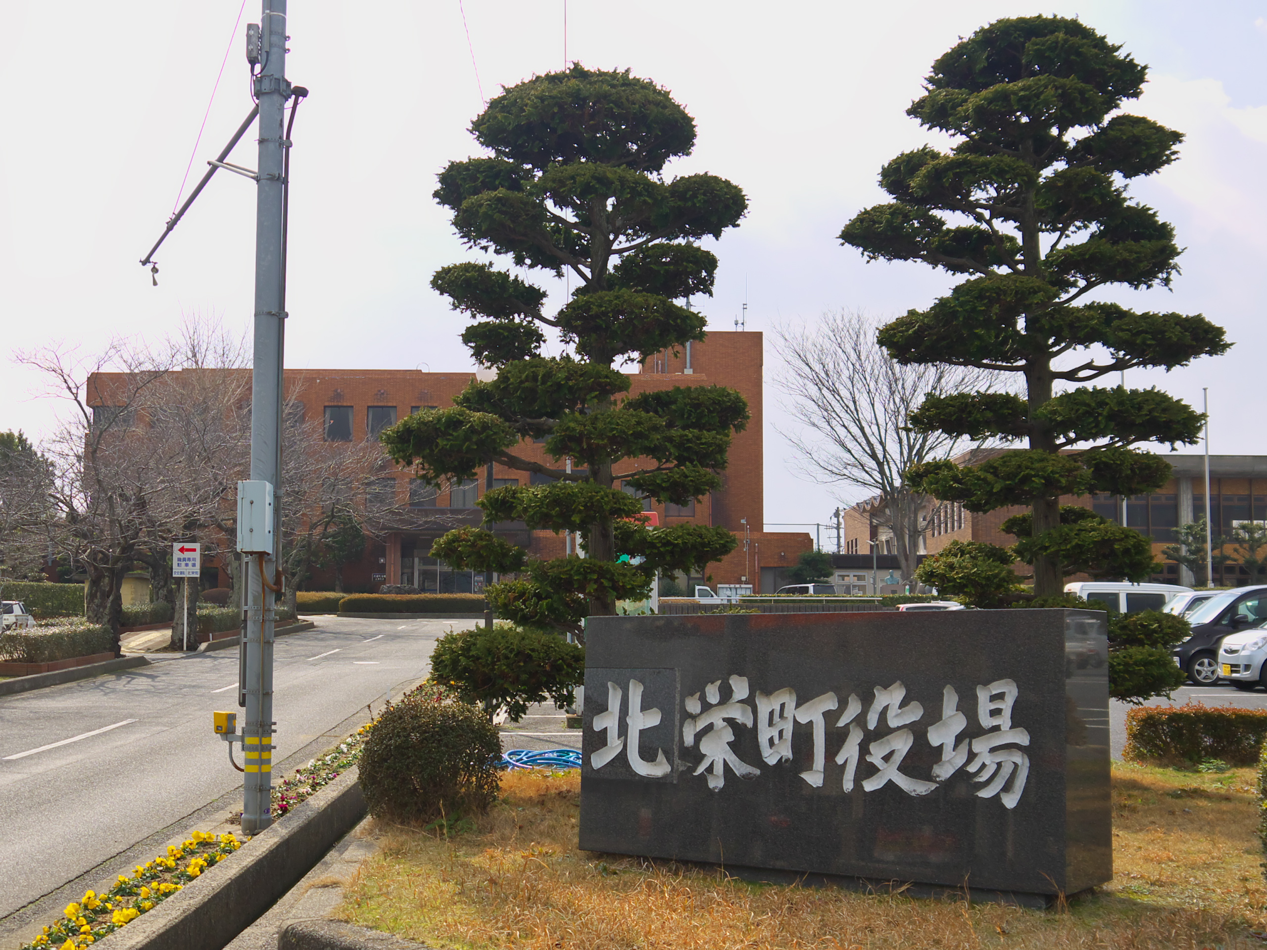 Hokuei town office Daiei office building, Tottori prefecture (Former Daiei town office)